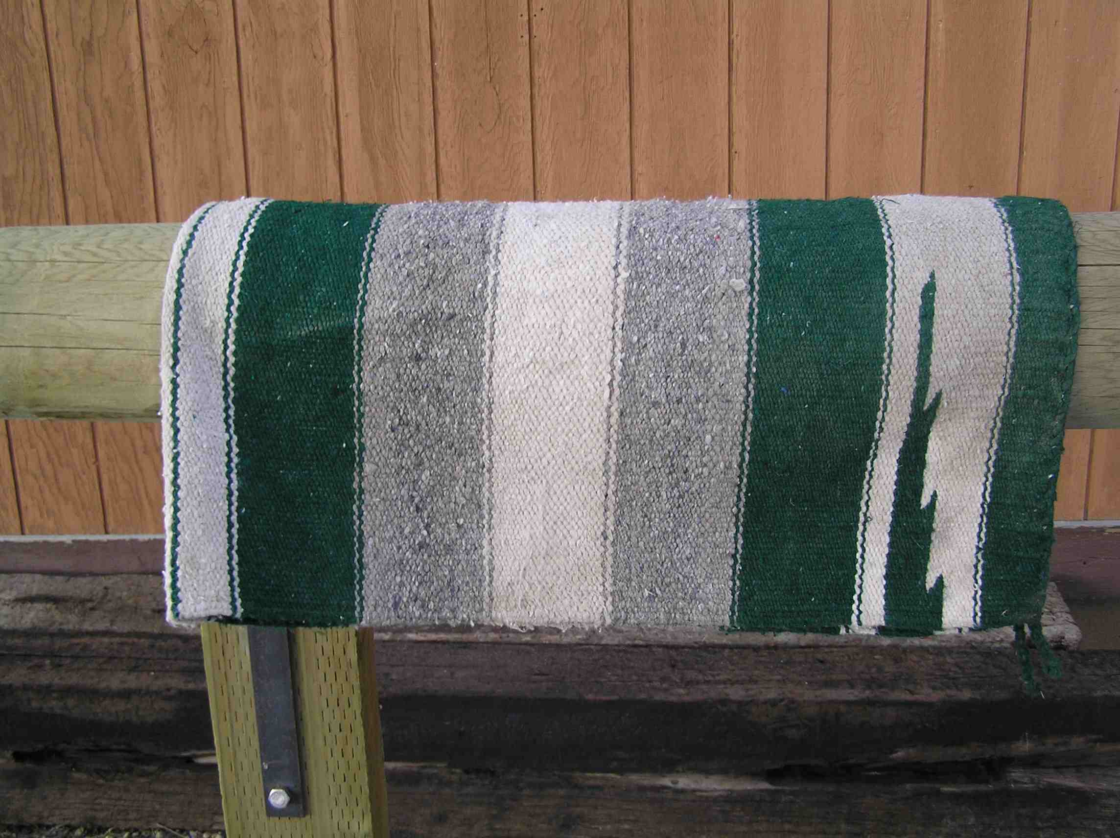 A Western saddle blanket, cotton, Navajo-style, though not a true wool Navajo